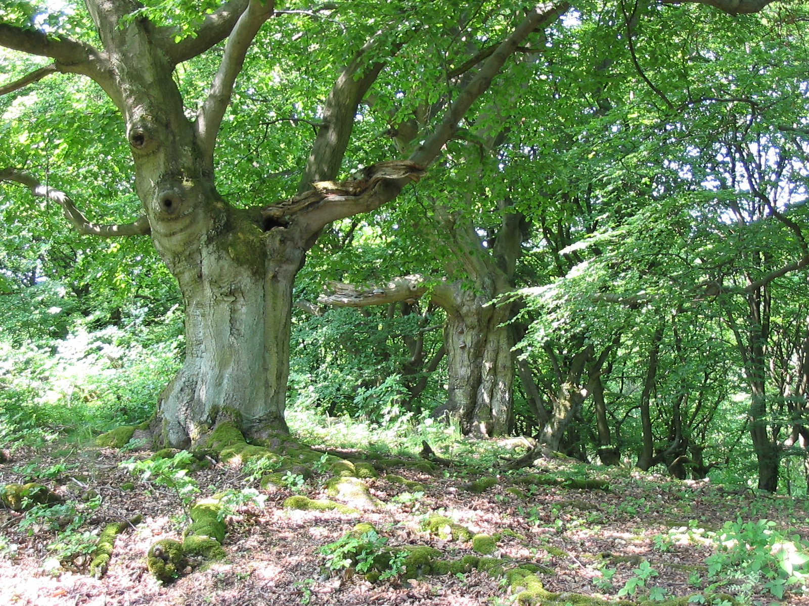 pasture wood 'Halloh' near Albertshausen, Kellerwald, north Hesse, Germany